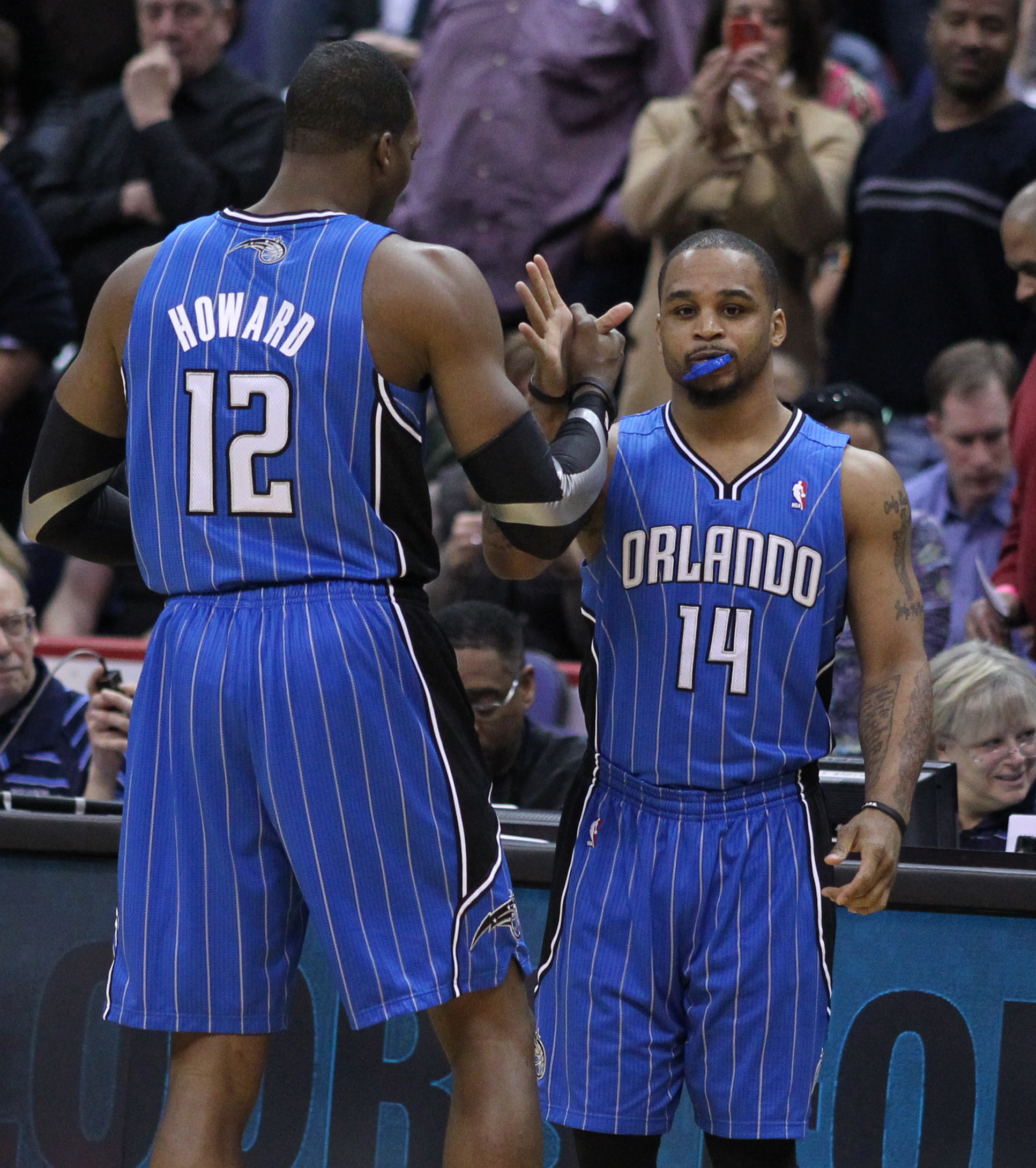 Washington Wizards v/s Orlando Magic February 4, 2011